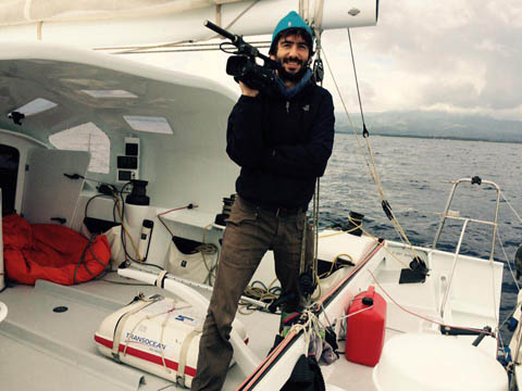 Luca Rosini in his documentary about Gaetano Mura